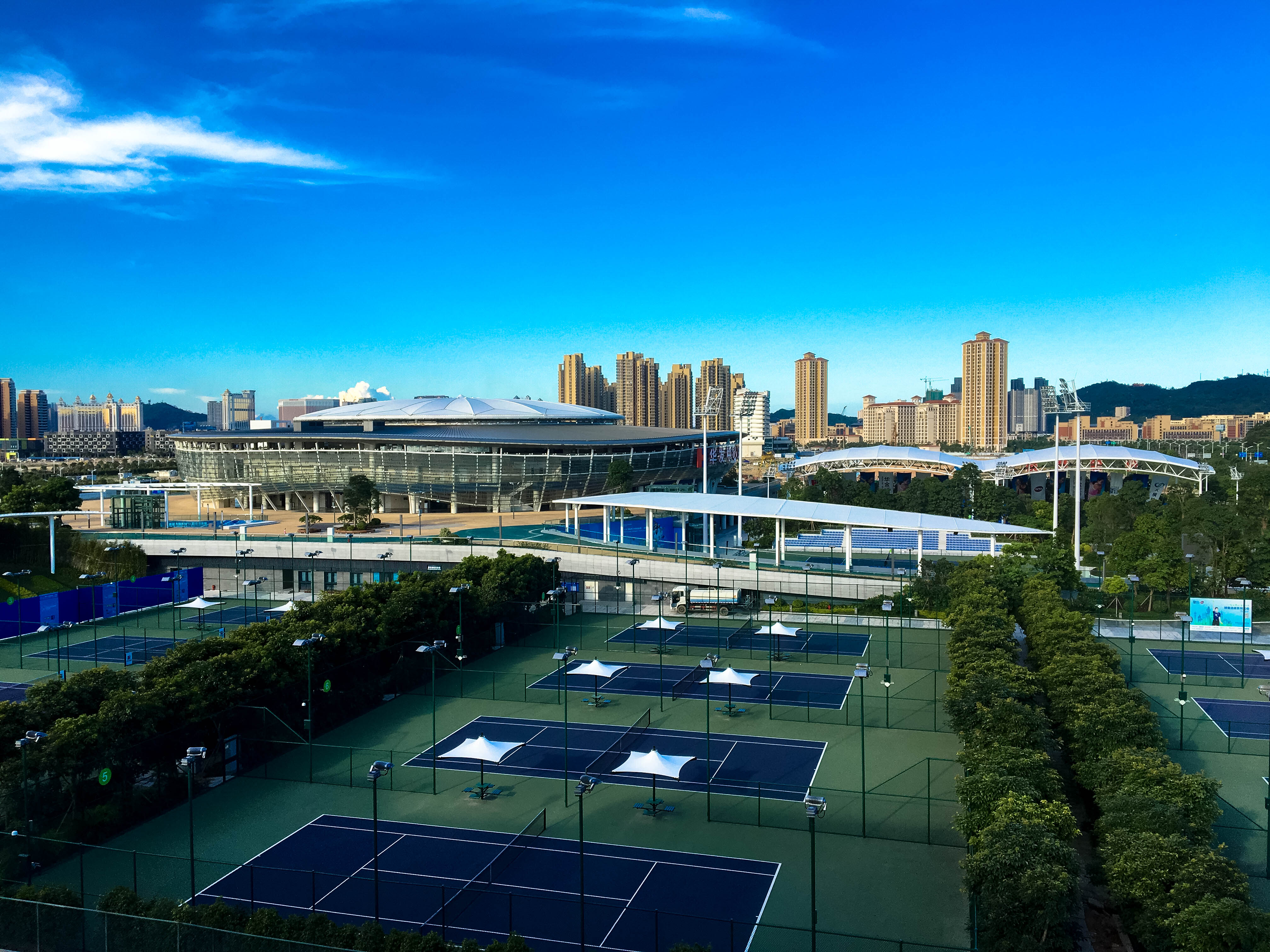 Hengqin Tennis Center Zhuai